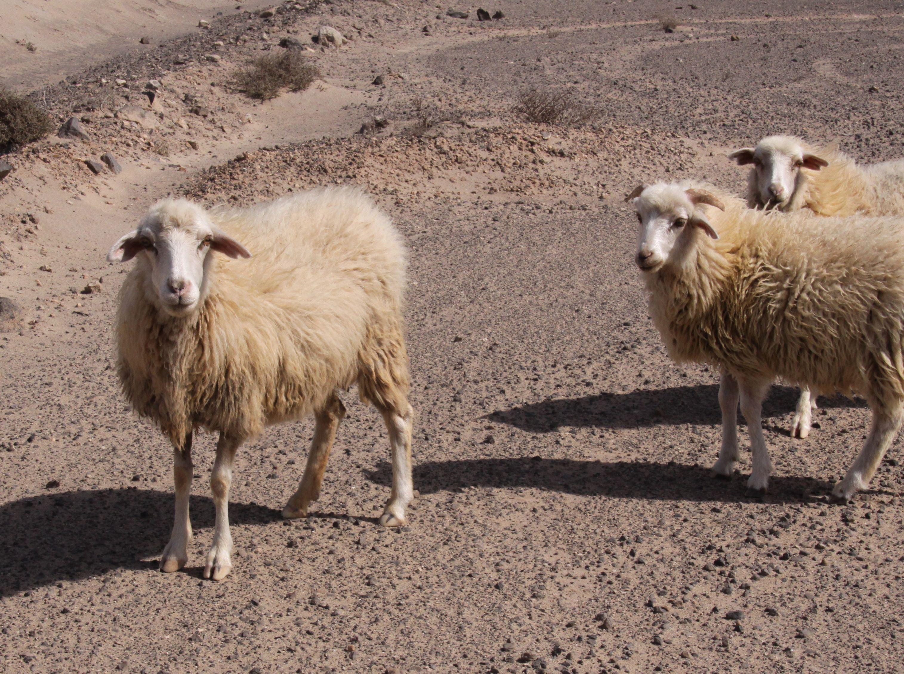 Sheep on the track from Jandia to the lighthouse at the western tip of Fuerteventura